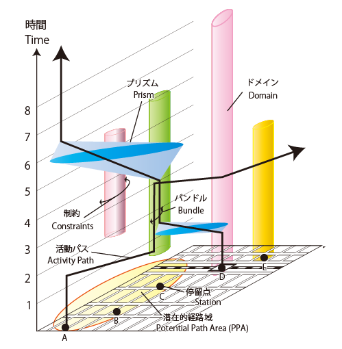 This is a sample figure to explain a time geographical description.